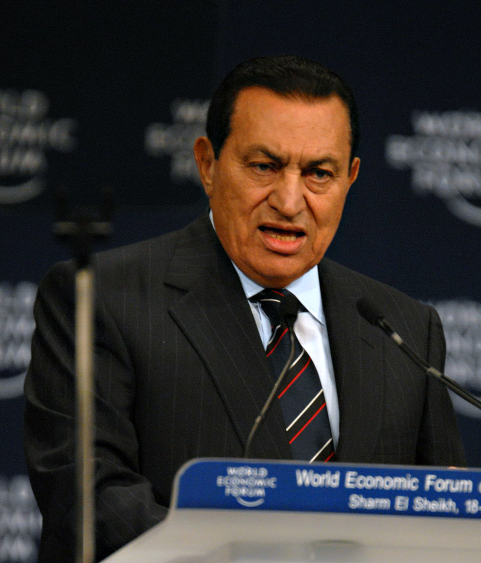 SHARM EL SHEIKH/EGYPT, 18MAY08 - Muhammad Hosni Mubarak, President of Egypt addressing the Opening Plenary session of the World Economic Forum on the Middle East 2008 held in Sharm El Sheikh, Egypt.